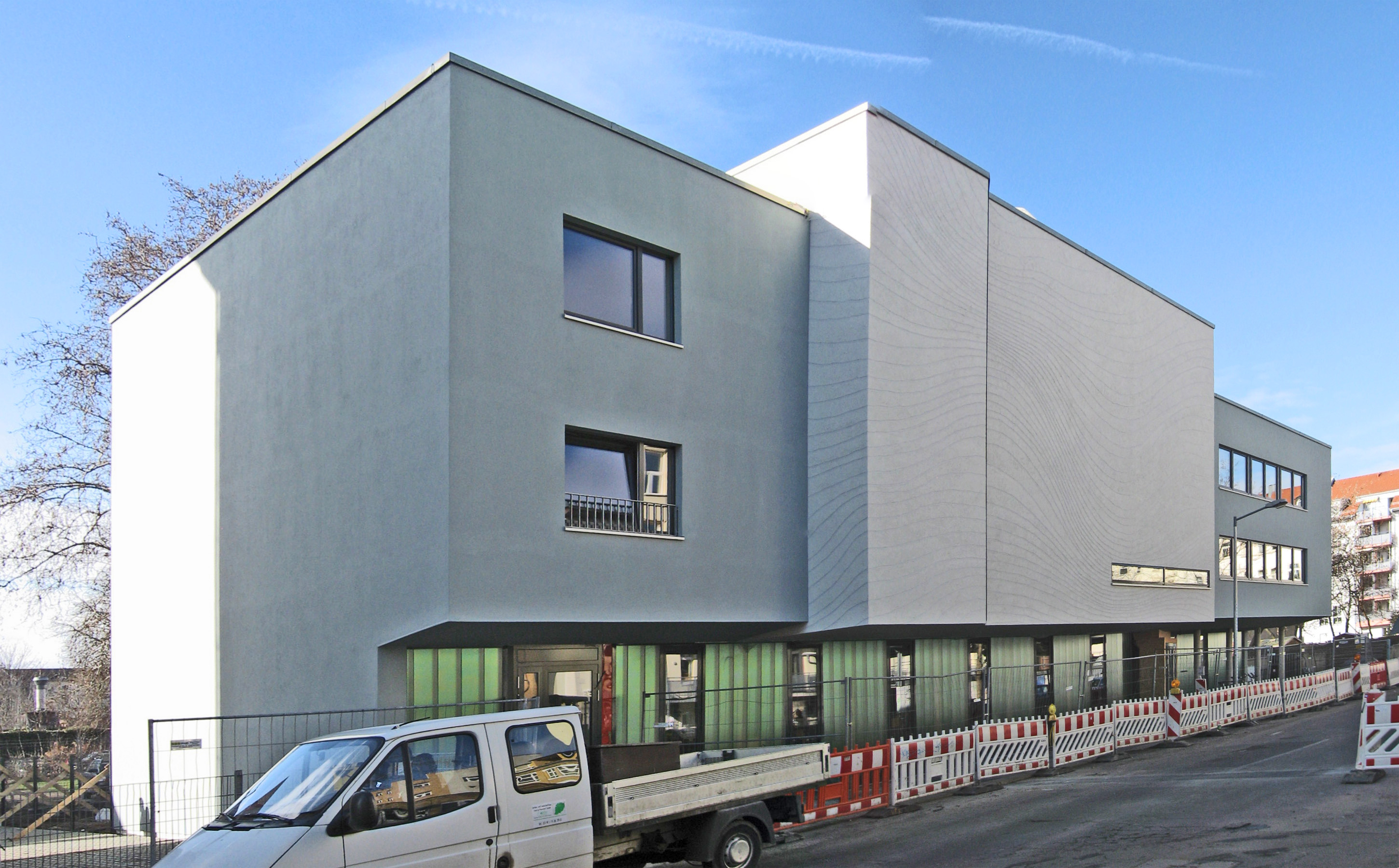 Community center of the Evangelical Free Church Congregation (Baptists) in Leipzig, Germany, Bernhard-Goering-Strasse 18—20, built in 2009/10